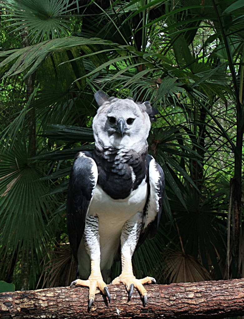 A Harpy Eagle in Belize.